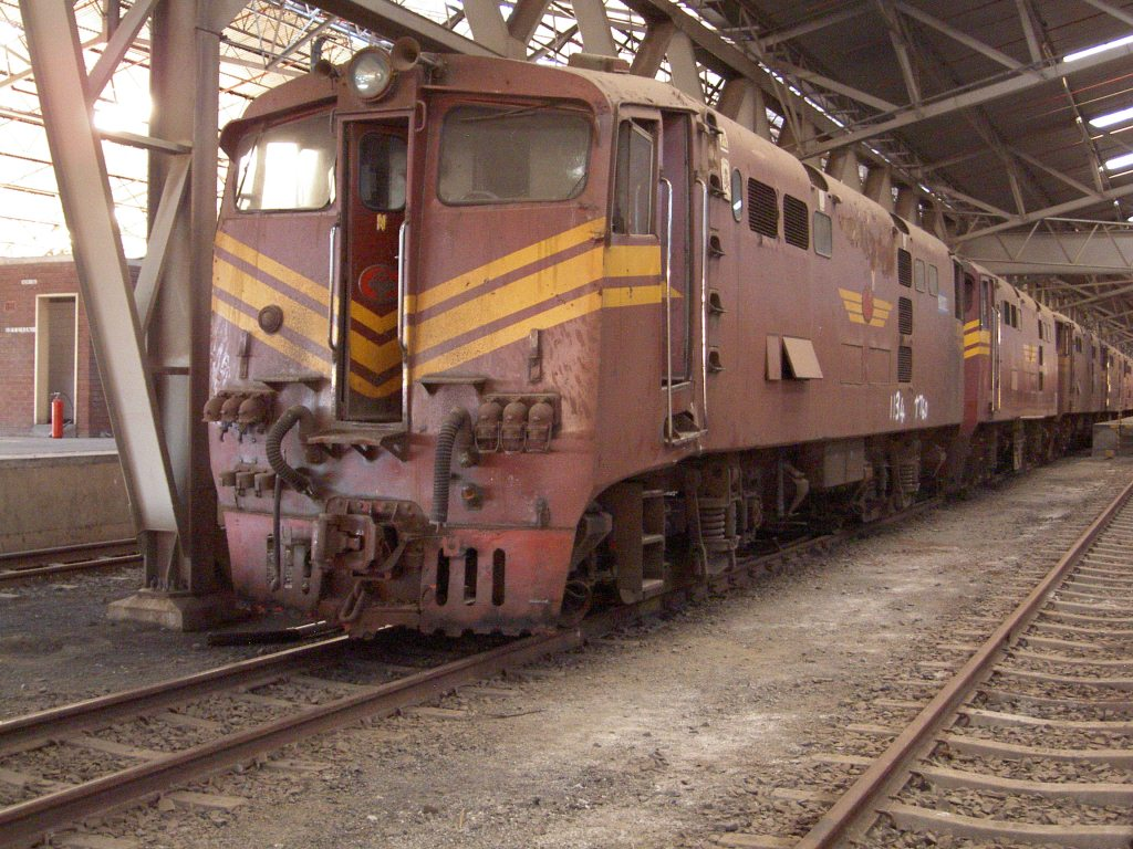 SAR Class 5E1 Series 5 E1134Location: Danskraal, Ladysmith, KwaZulu-Natal